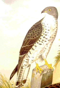 honey buzzard, Pernis apivorus Image from